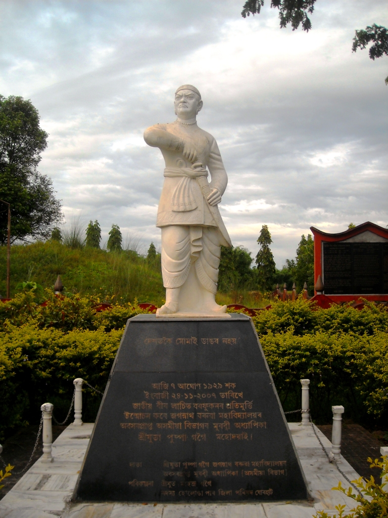 Statue of Lachit Barphukan at his maidam. Ahoms led by general Lachit Barphukan defeated the Mughls led by Ramsingh in battle of Saraighat in 1671. He died a year later and his last remains were laid under this tomb (Maidam) constructed by Swargadeo Udayaditya Singha in 1672 at Hoolungapara, 16 kms east of Jorhat city.